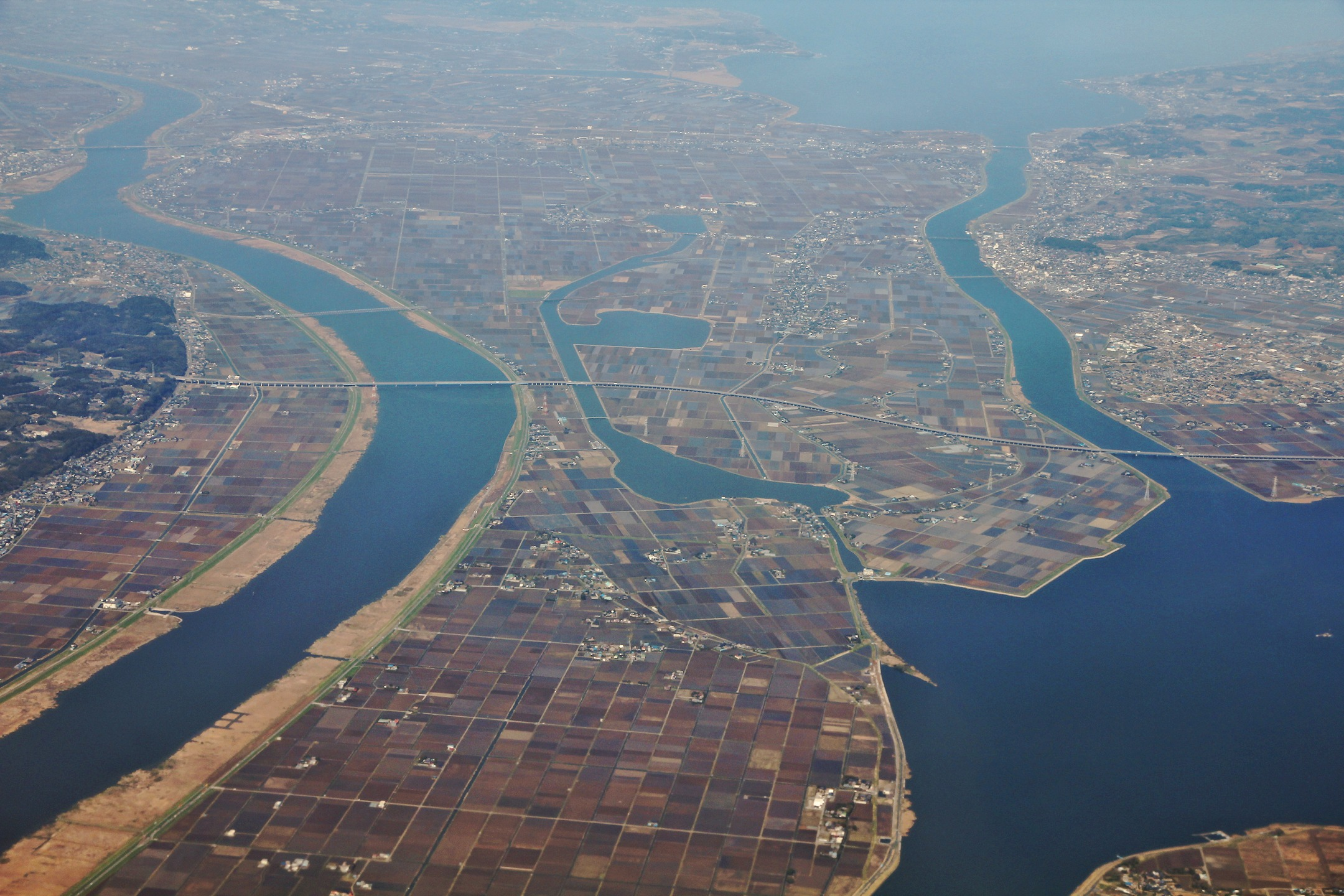 Aerial view of Katori, Chiba, Japan.